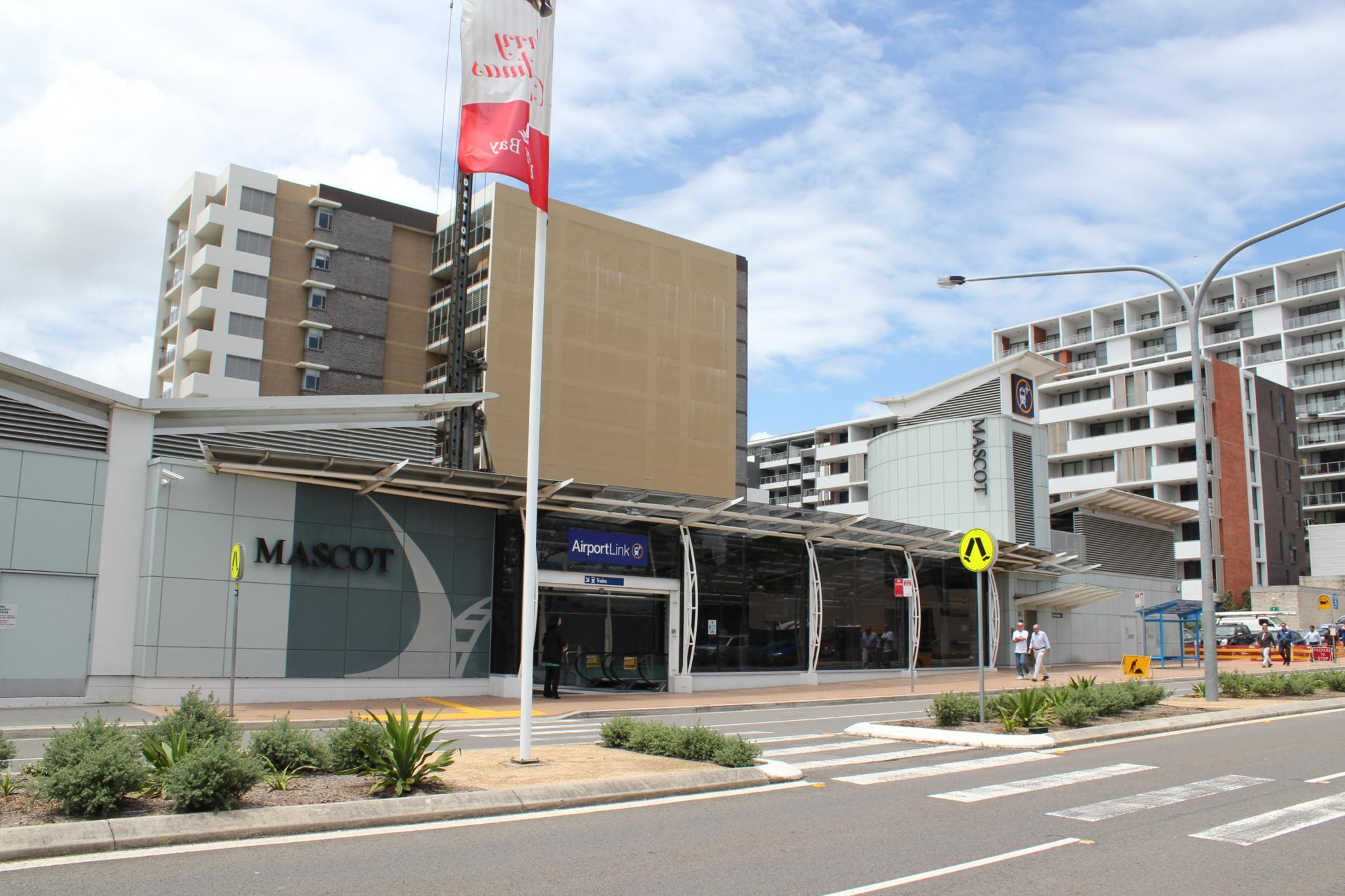 entrance angled view